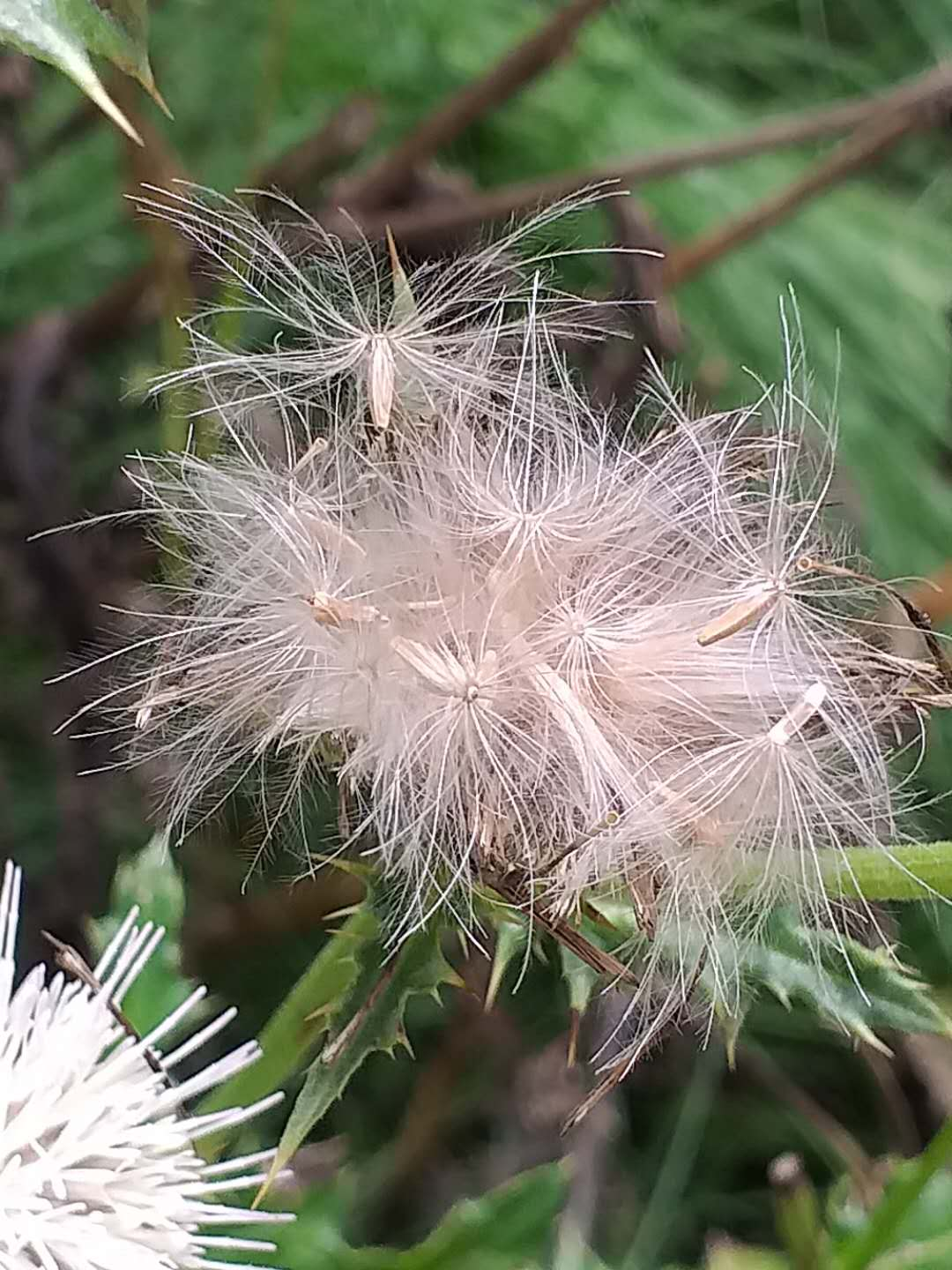 Pappus and achene of Cirsium japonicum var. takaoense. 2018 Taichung World Flora Exposition, Taiwan.